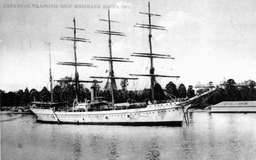 The „Taisei Maru“, training ship of Japan, in Brisbane River (Queensland).